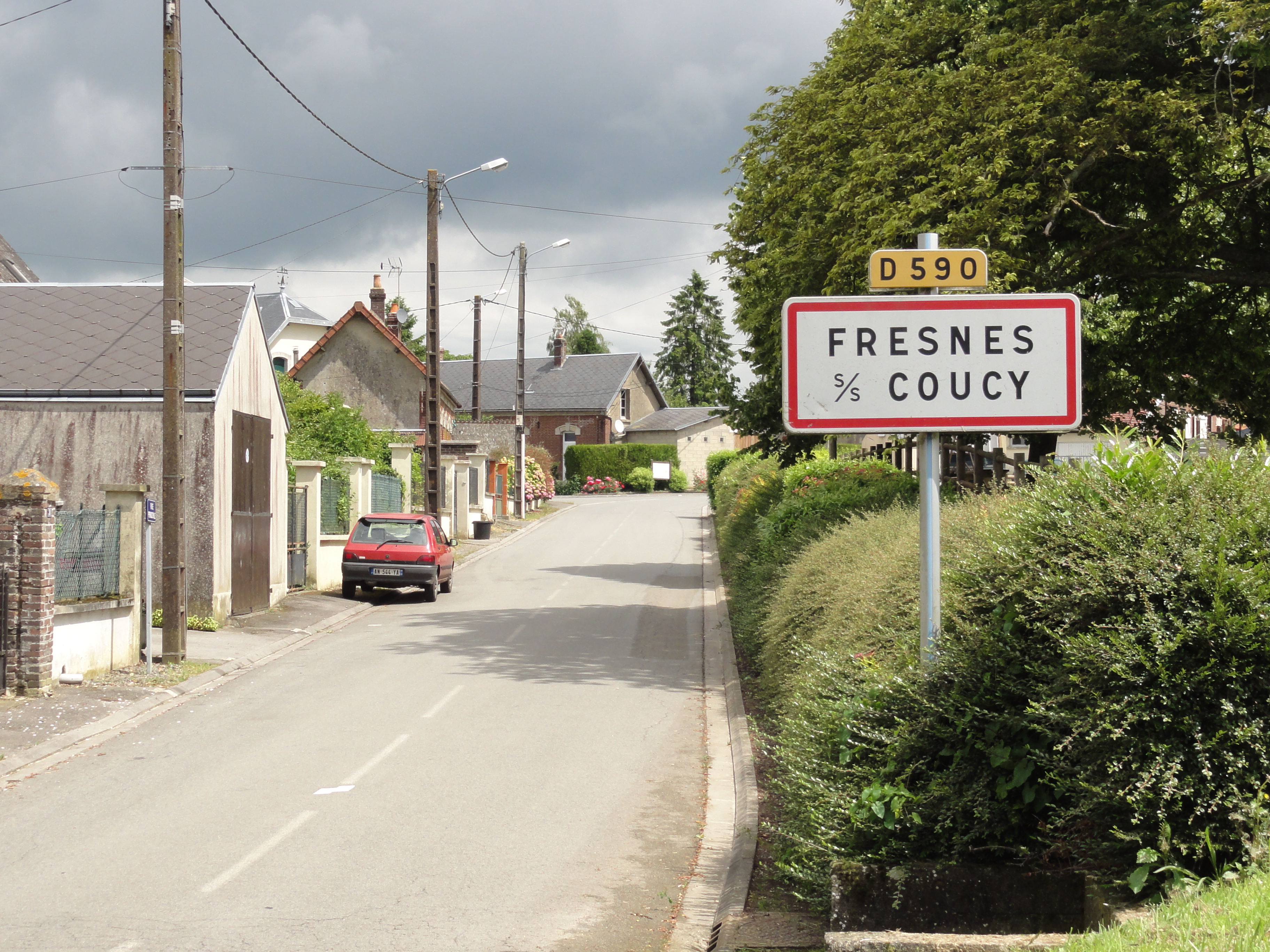 Fresnes-sous-Coucy (Aisne) city limit sign